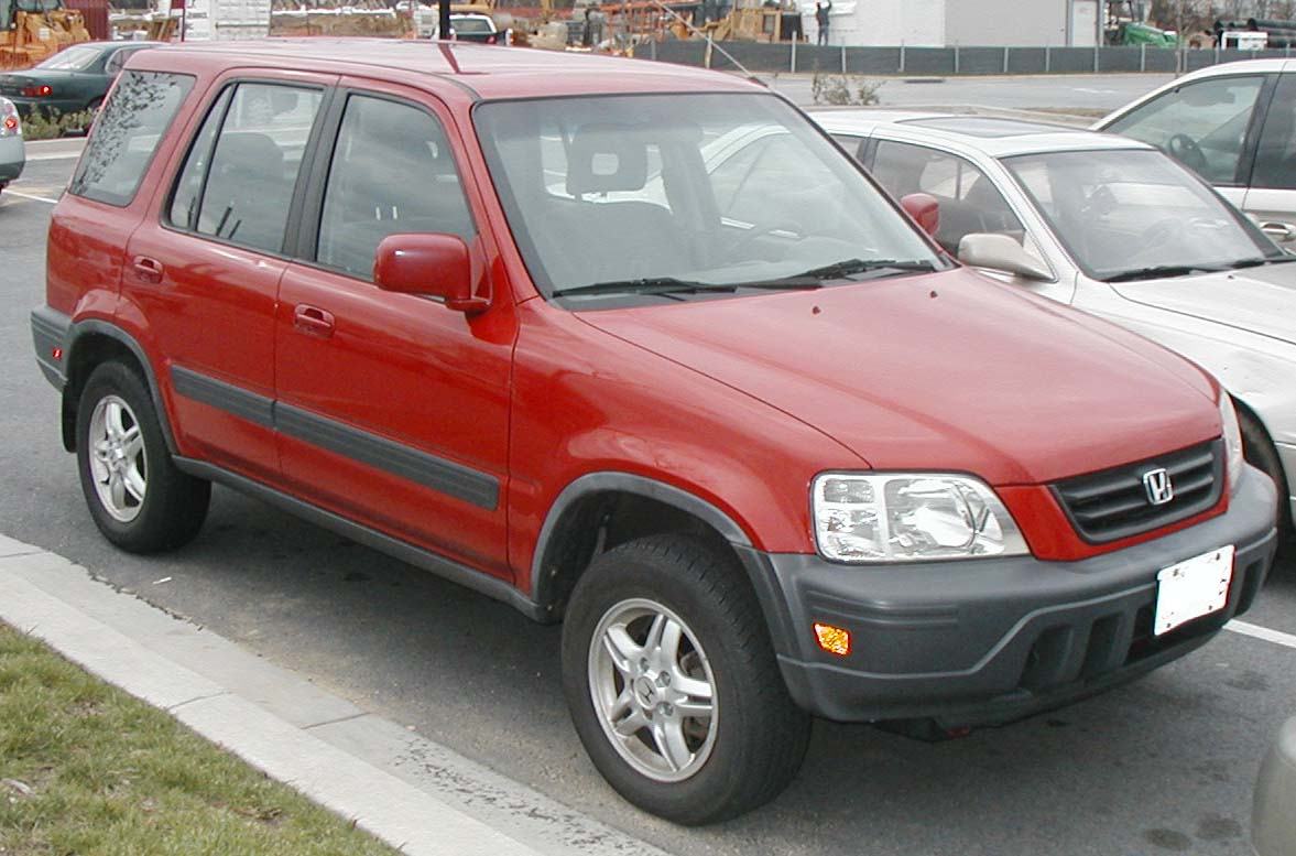 Honda CR-V photographed in USA.